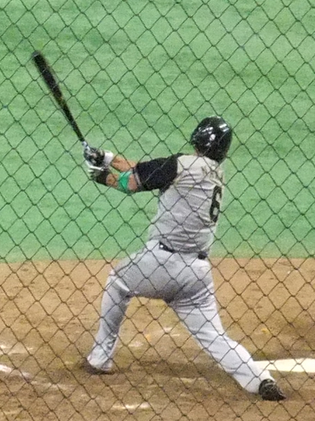 Sho Nakata, infielder of the Hokkaido Nippon-Ham Fighters, at Tokyo Dome